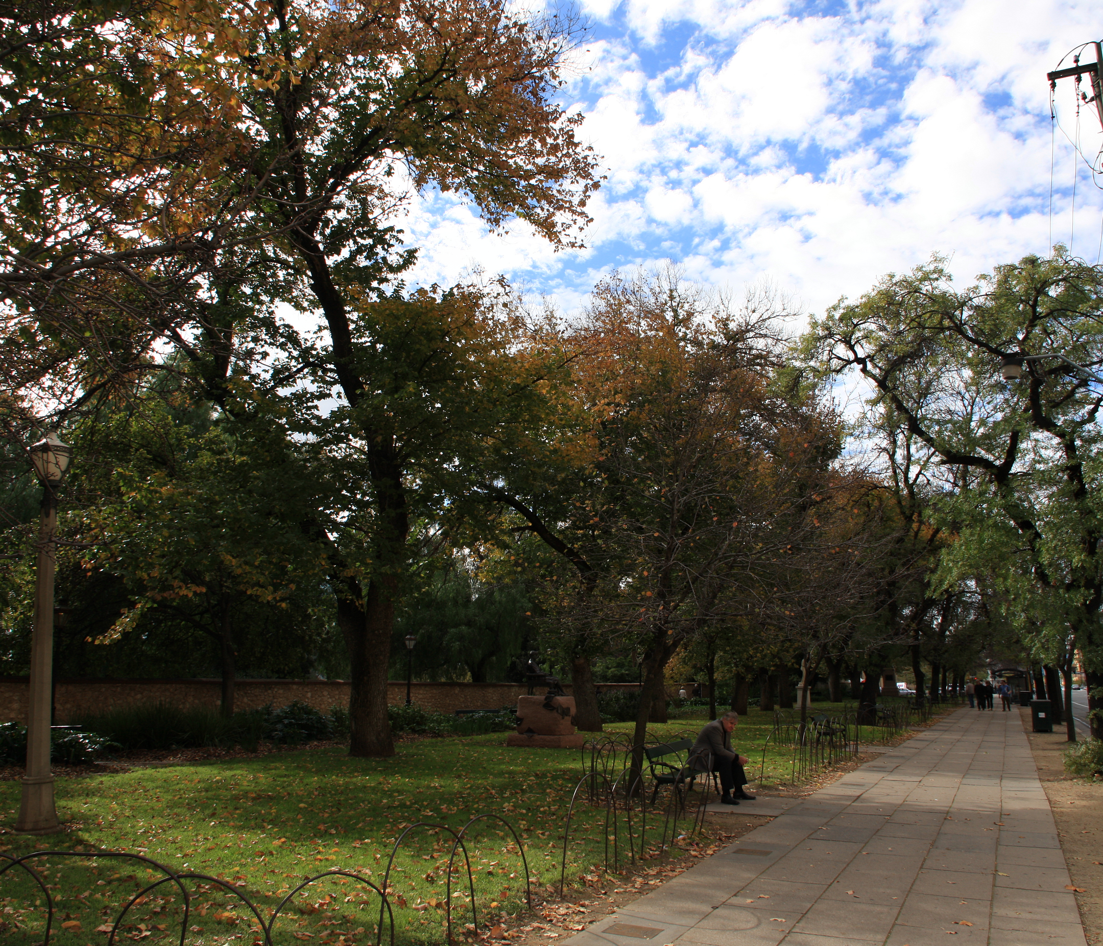 Pathway North Terrace Adelaide)